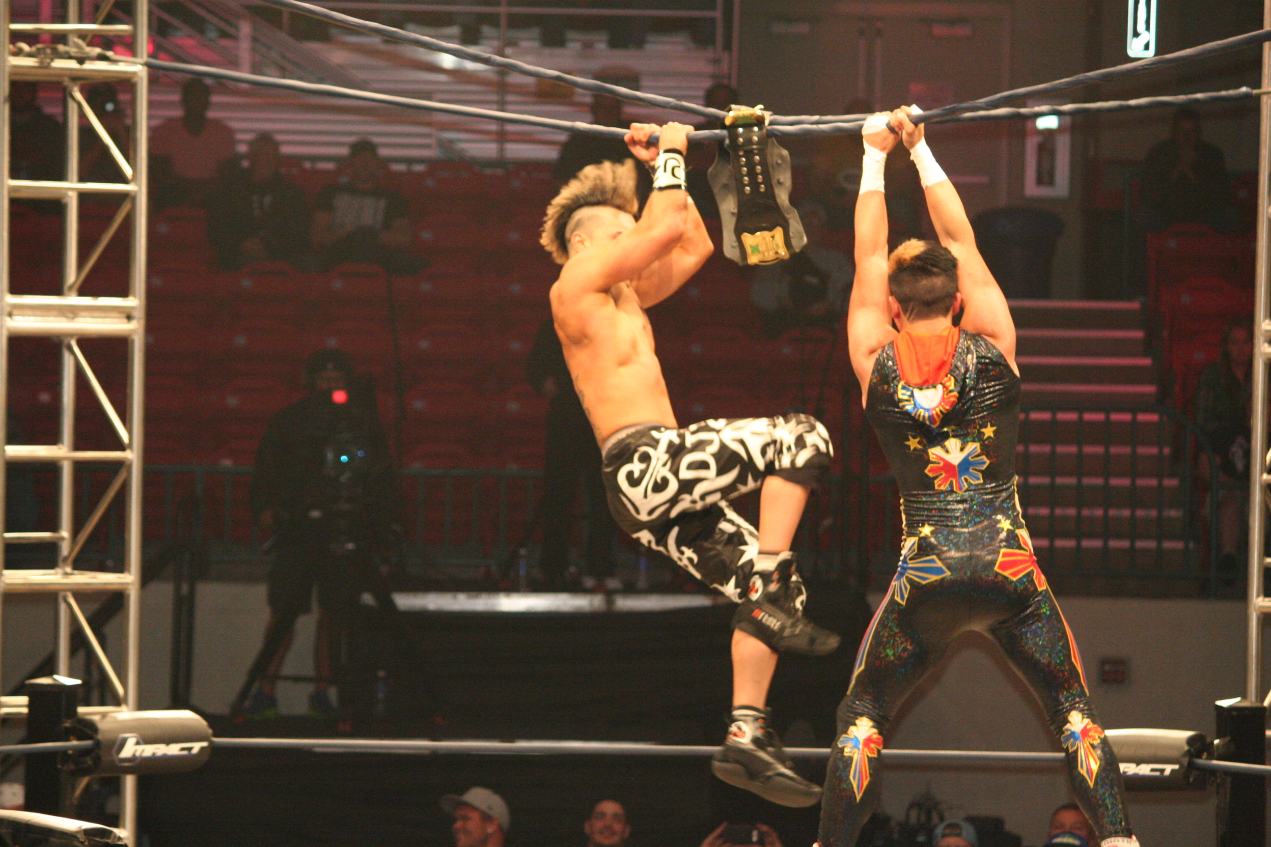 DJ Z and Manik during an Ultimate X match at Bound for Glory in 2015.